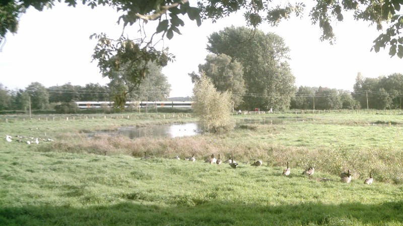 Train near Clörather Mühle.